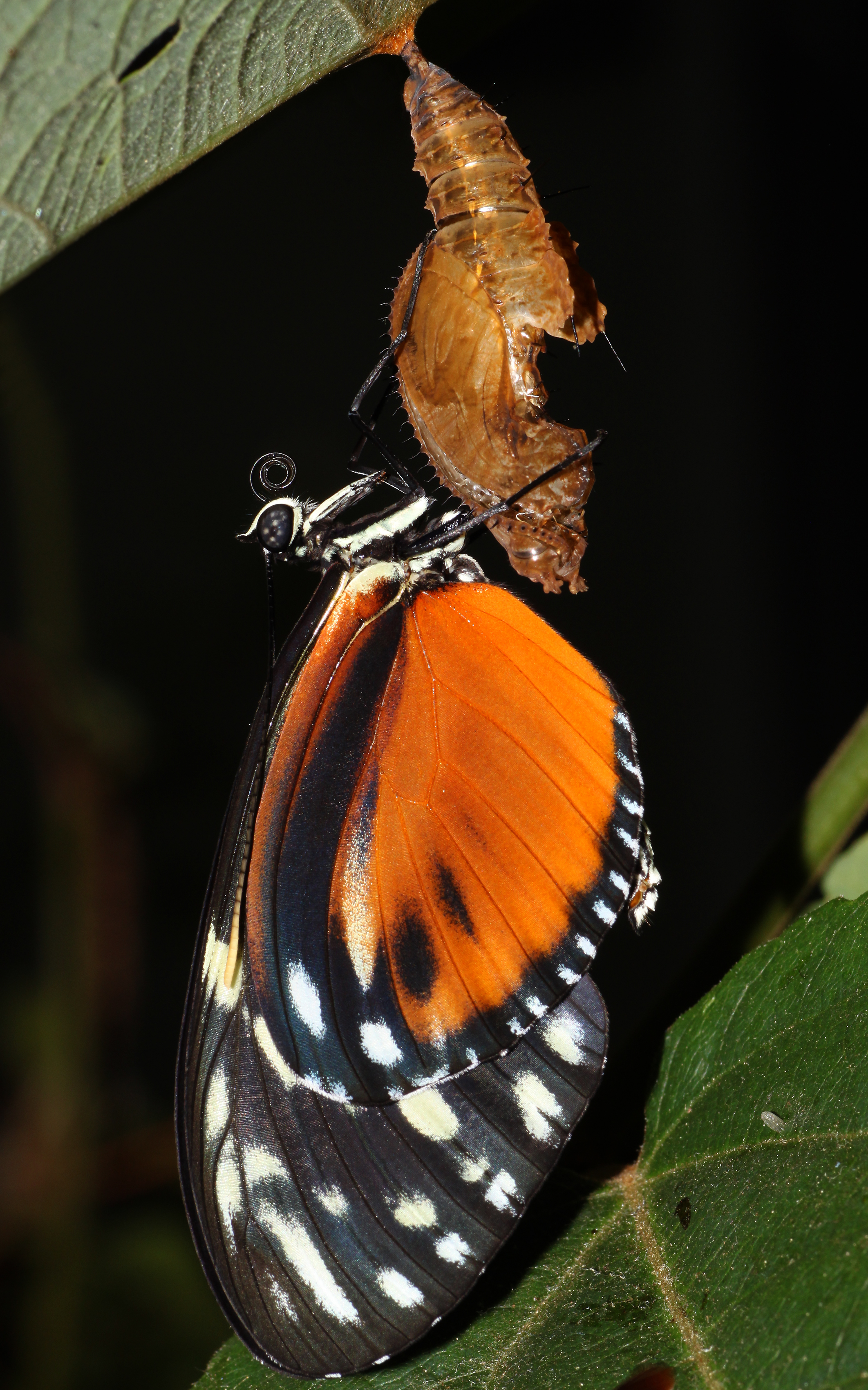 Tiger Longwing with cocoon, Heliconius hecale, Family: Nymphalidae, Location: Germany, Stuttgart, Zoological Garden